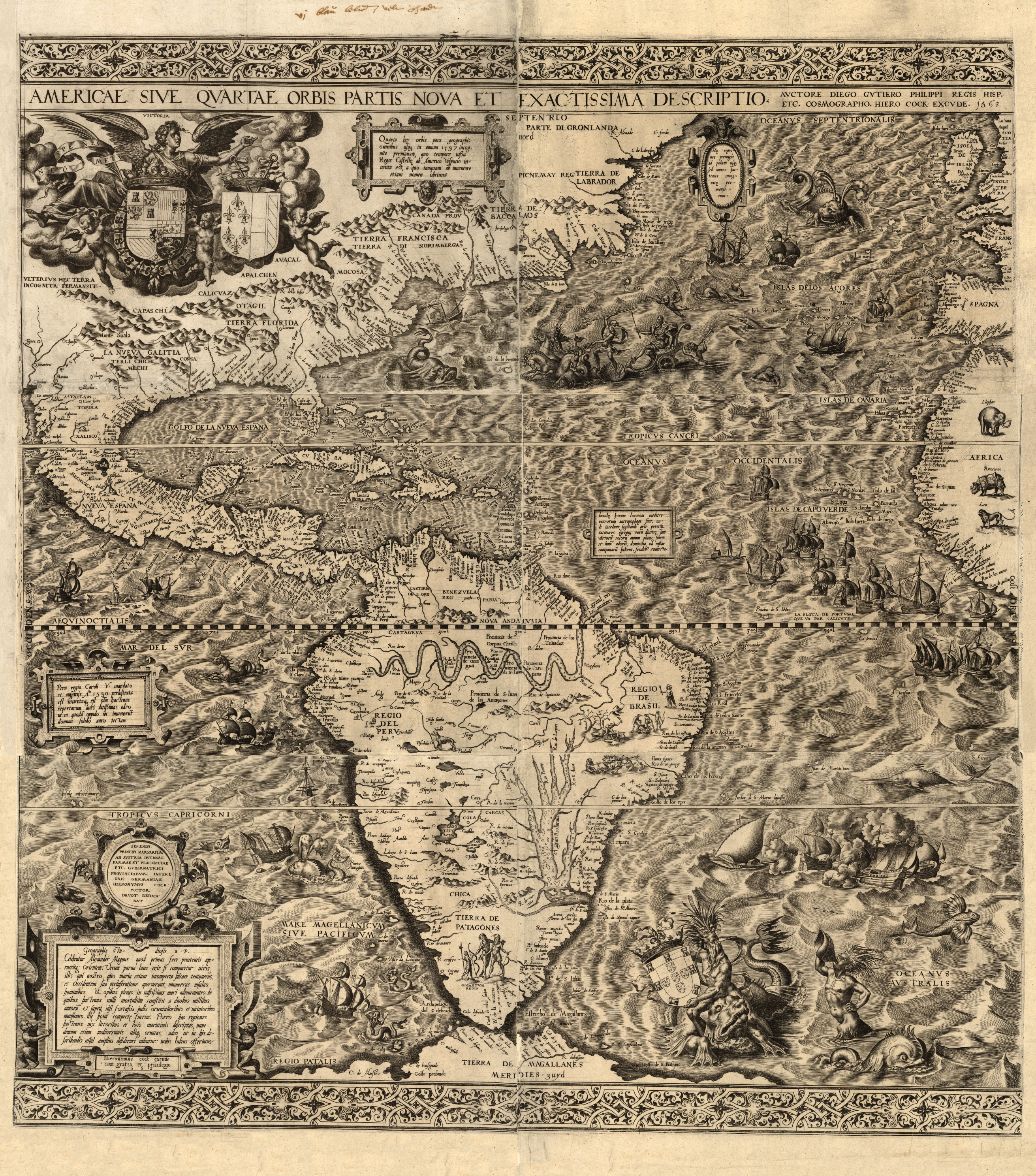 Americae sive quartae orbis partis nova et exactissima descriptio, the first map of the Americas to use the name California. (Note the horizontally oriented, small-script word, "California," placed in the Sea of Cortez, adjacent to the small portion of Baja California showing on the map.)